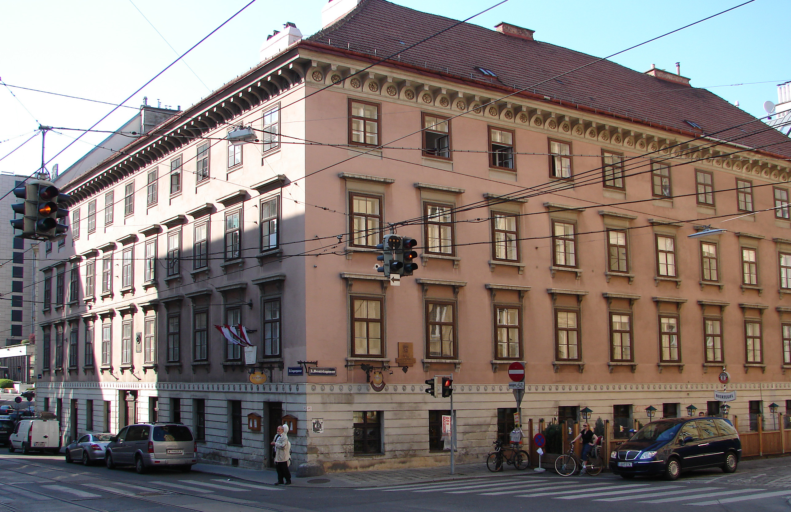 Building Ungargasse No. 5 / Beatrixgasse in 1030 Vienna, Austria, where: Ludwig van Beethoven finished his Symphony No. 9 in 1823/1824 (also known for the European anthem), Slovak writer Jan Kollar lived and died 1852.